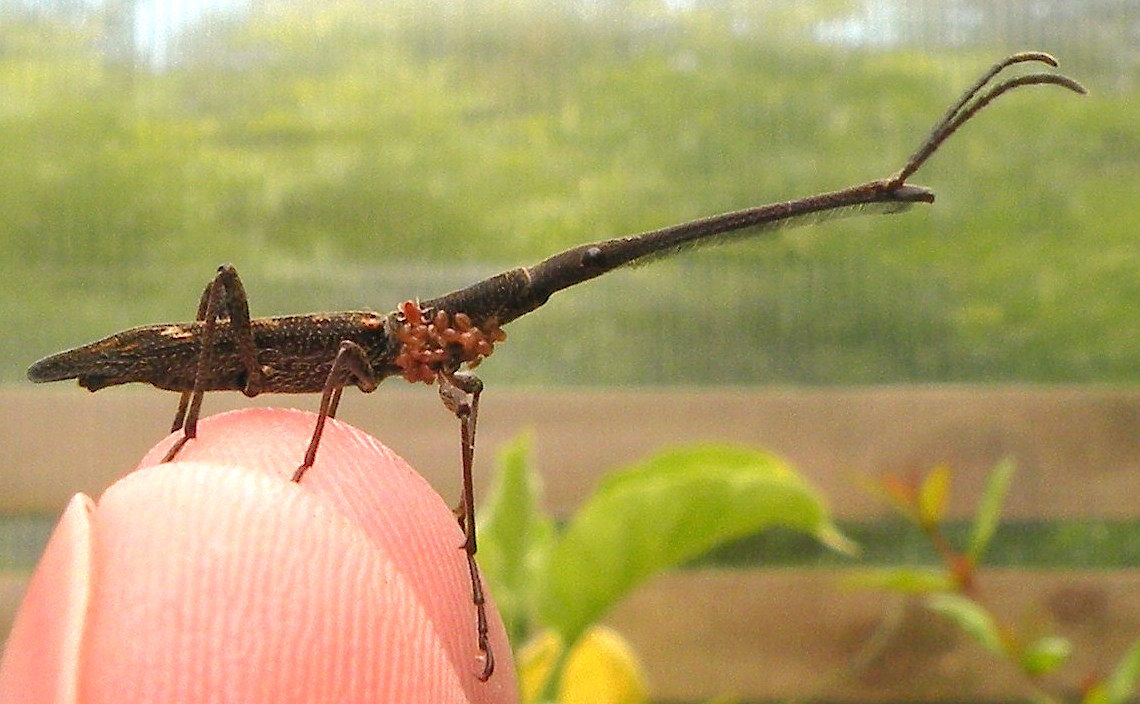 Male New Zealand giraffe beetle (Lasiorhynchus barbiconus) with mites attached to the thorax. Taken in Crofton Downs, Wellington, New Zealand.